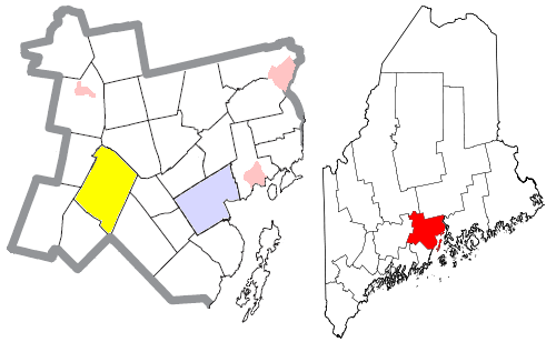 Map of the divisions of Waldo County, Maine, United States, with the town of Montville highlighted in yellow. The city of Belfast is light blue; other towns are white; and pink areas are census-designated places within towns.